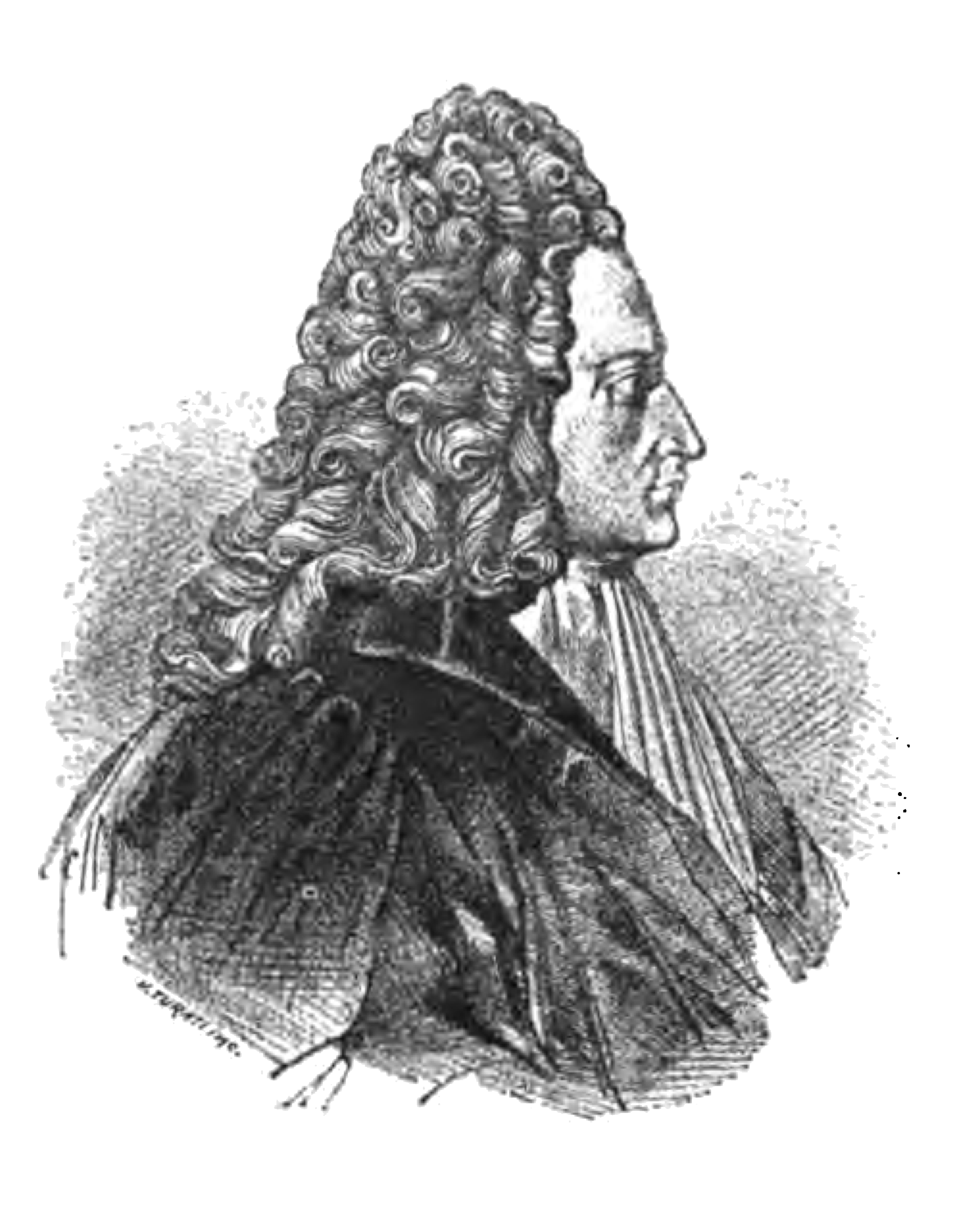 image from "Rivista italiana di numismatica 1888.djvu p. 289 (../310) Portrait of Filippo Argelati, an Italian XVIII century scholar